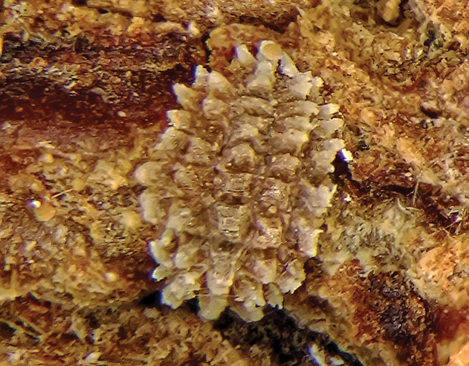 Nidularia balachowskii Bodenheimer young adult female, general appearance.